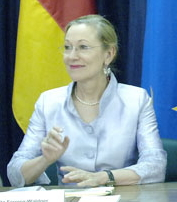 European Commissioner for External Relations and European Neighborhood Policy Benita Ferrero-Waldner at the U.S.-EU Energy CEO Forum.